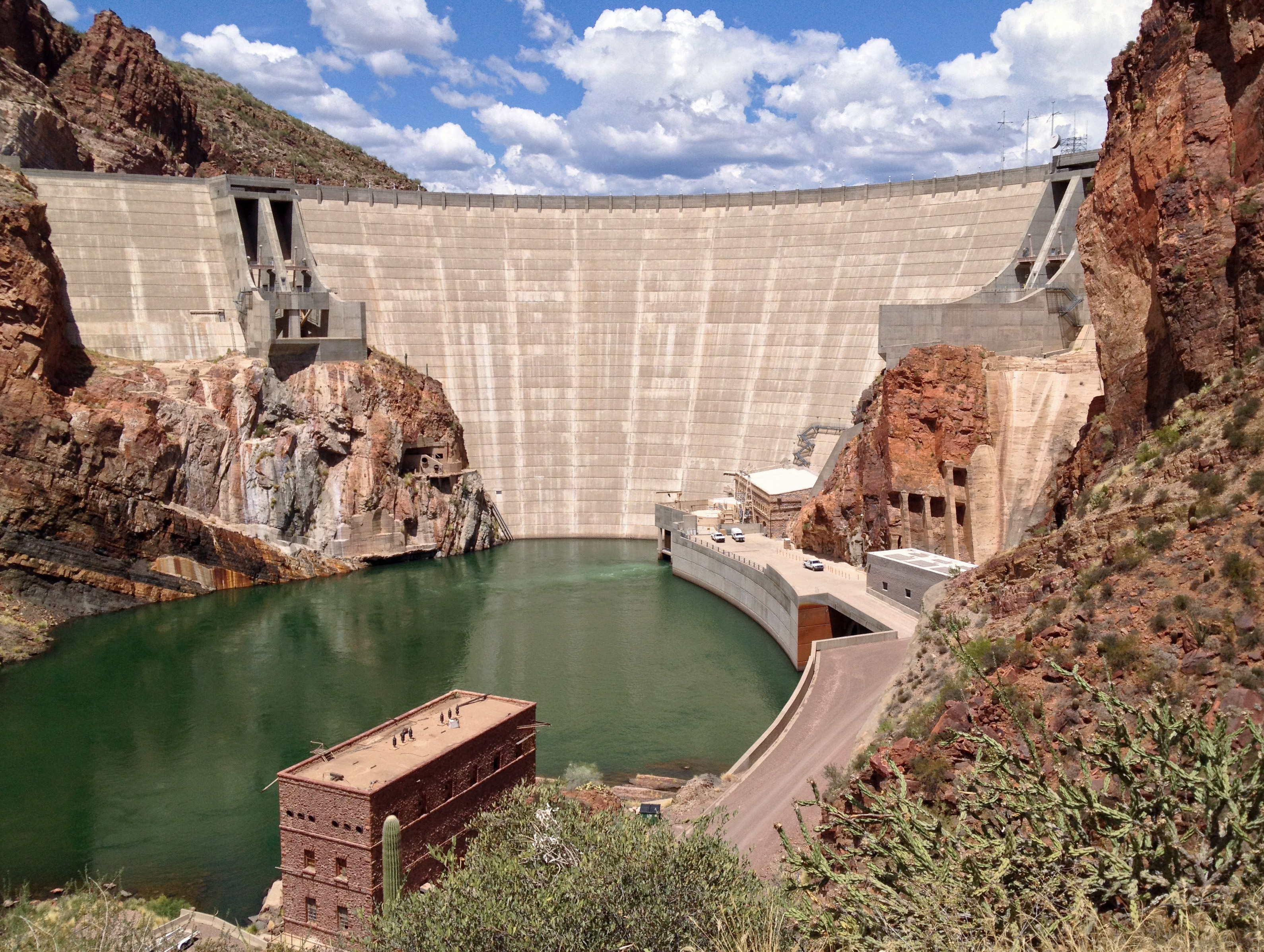 The Theodore Roosevelt Dam, the first and largest of the dams on the Salt River in central Arizona, providing flood control, irrigation water, and hydroelectric power. It was dedicated by President Theodore Roosevelt in 1911. The site is designated as a Historic Civil Engineering Landmark by the American Society for Civil Engineers and is a former U.S. National Historic Landmark.